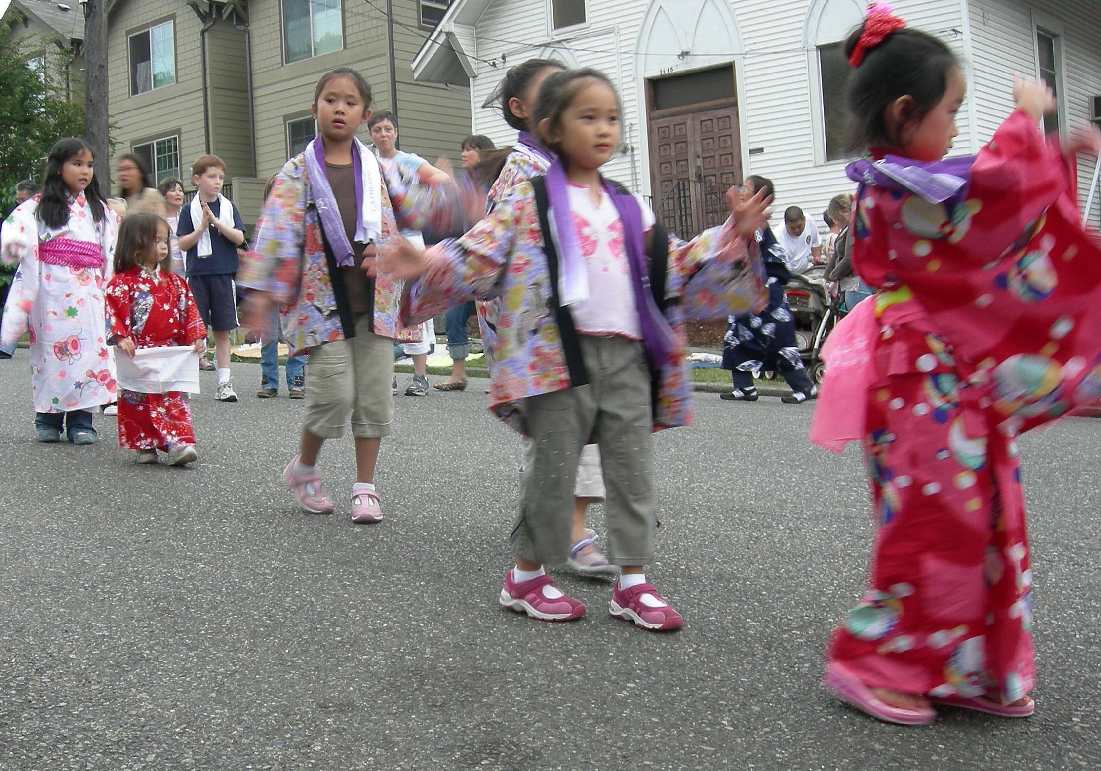 Children dancing Tokyo Ondo (note the tenugui, a scarf or towel) at the 75th anniversary Seattle Bon Odori Festival, Seattle, Washington. The event is part of Seattle's Seafair (a series of annual summer events).